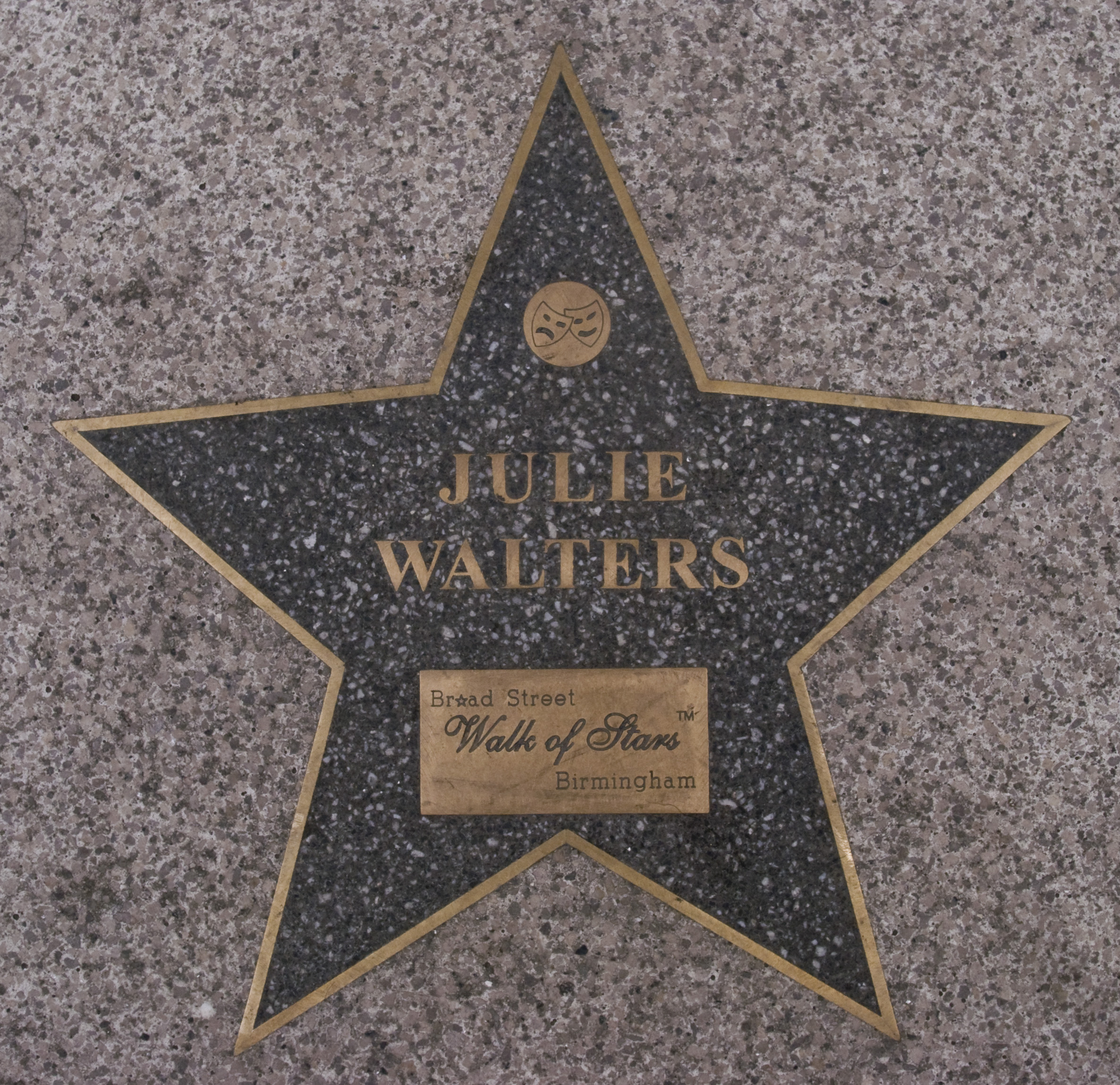 Star for Julie Walters on the Birmingham Walk of Stars on Broad Street, Birmingham, England. Set in the pavement outside the cinema. Photographed by me 26 March 2010. Oosoom